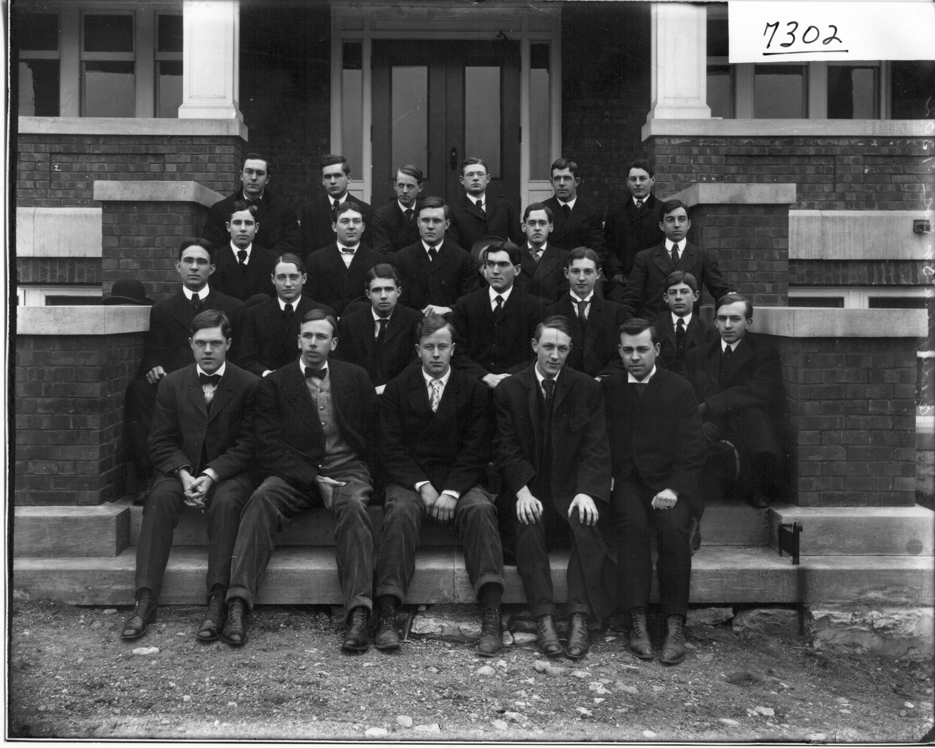 Persistent URL: Subject (TGM): Student organizations; Group portraits; Location: Oxford, Ohio